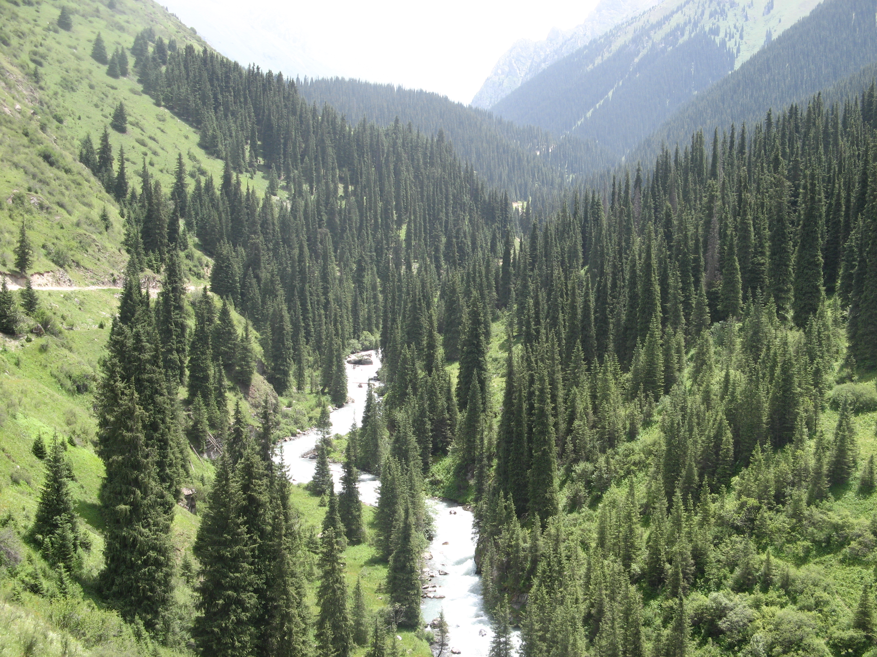 Picea schrenkiana forest, near Karakol, Kyrgyzstan